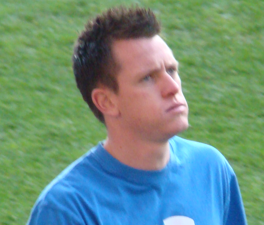 Nicky Shorey warming up against Aston Villa